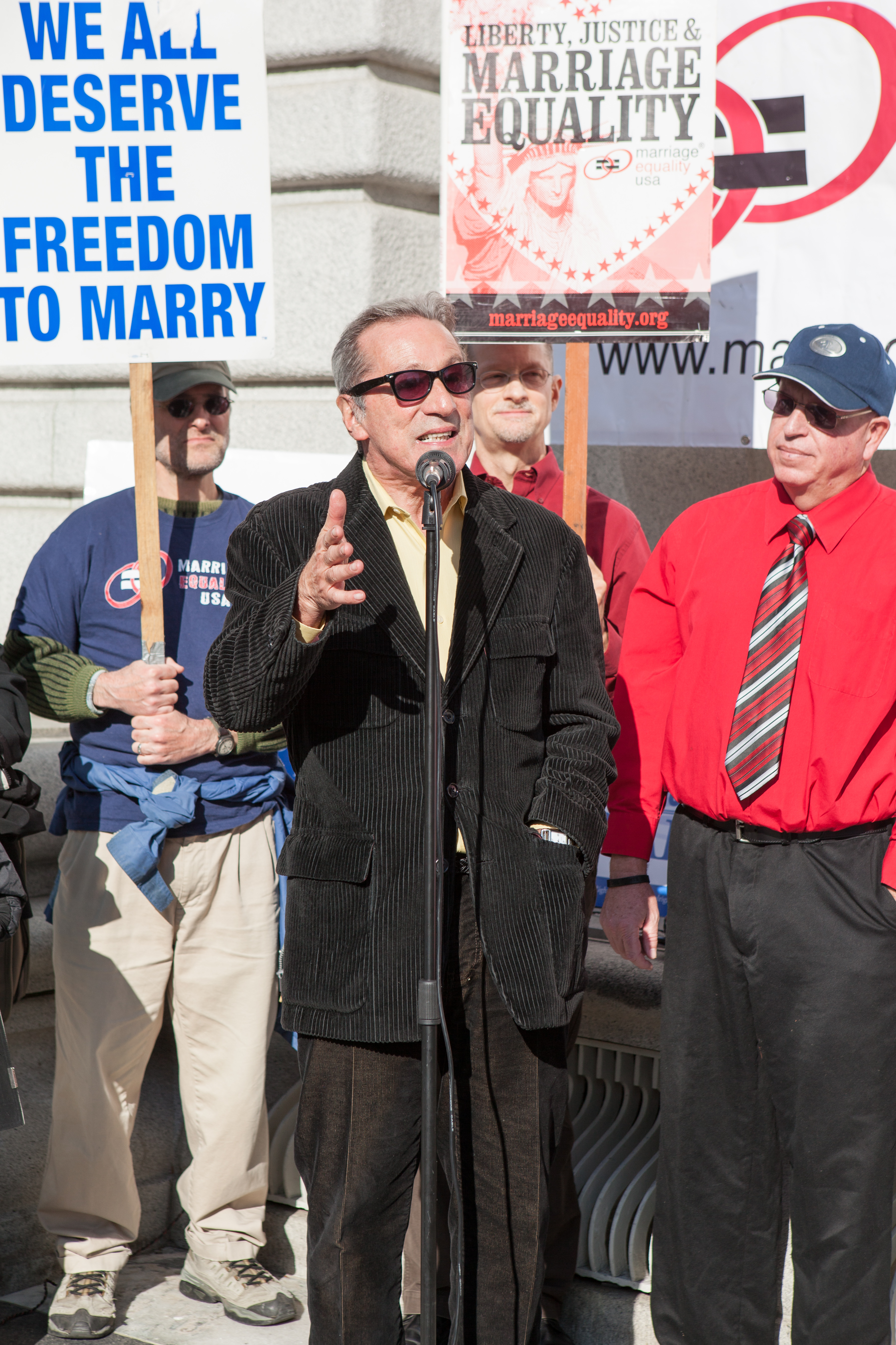 Tom Ammiano speaks at a marriage equality rally outside the James R. Browning U.S. Courthouse in San Francisco, December 8, 2011.